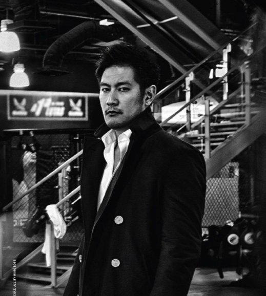 Entrepeneur and MMA coach Chatri Sityodtong